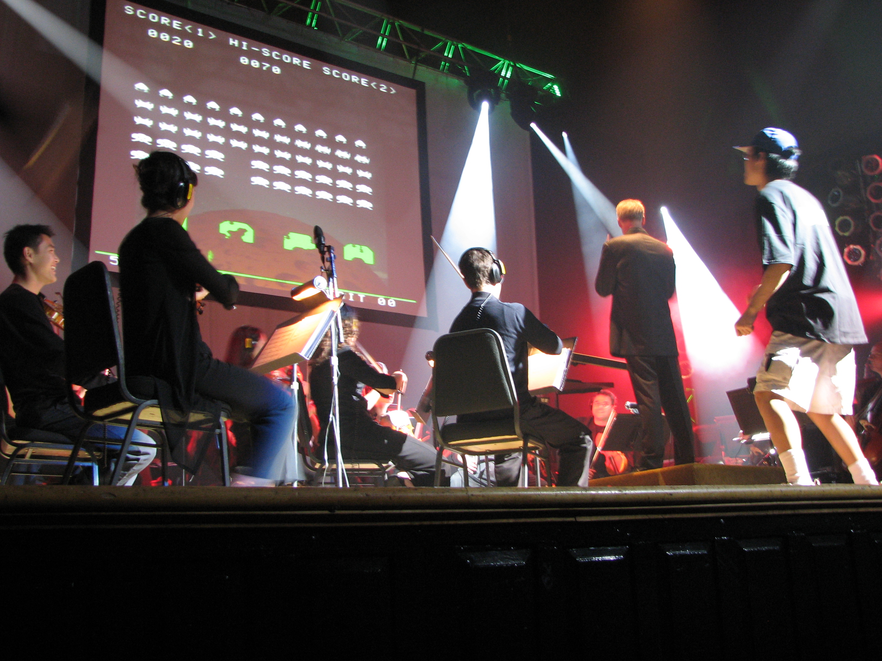 Playing Space Invaders at Video Games Live, Toronto